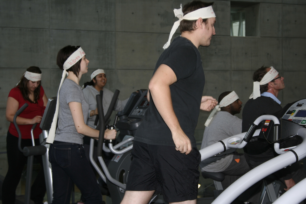 awaremus training